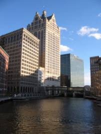 Milwaukee River, Milwaukee, WI. photo by Stephen Gross. November 2005.